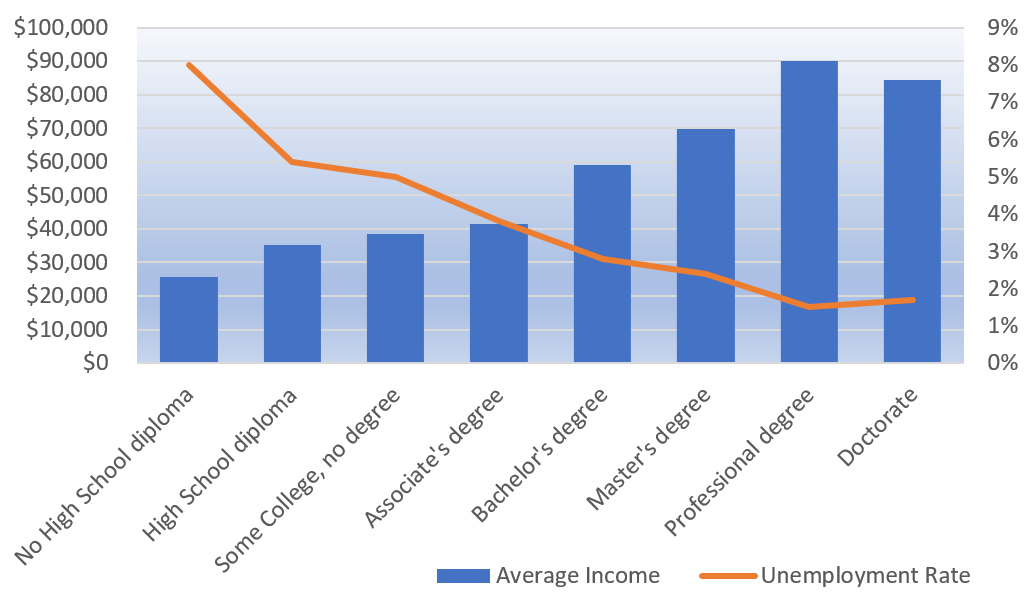 data